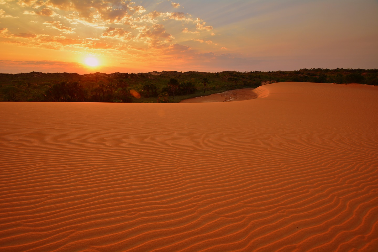 Jalapão, station park, in Mateiros, state of Tocantins, Brazil.